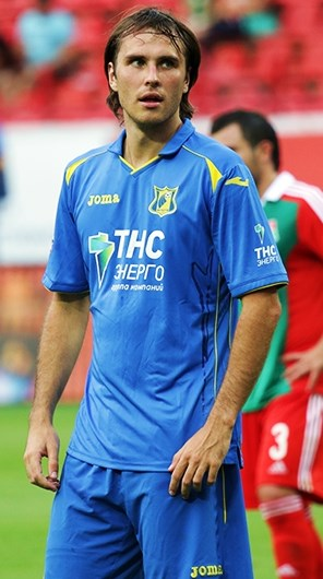 Vitali Dyakov